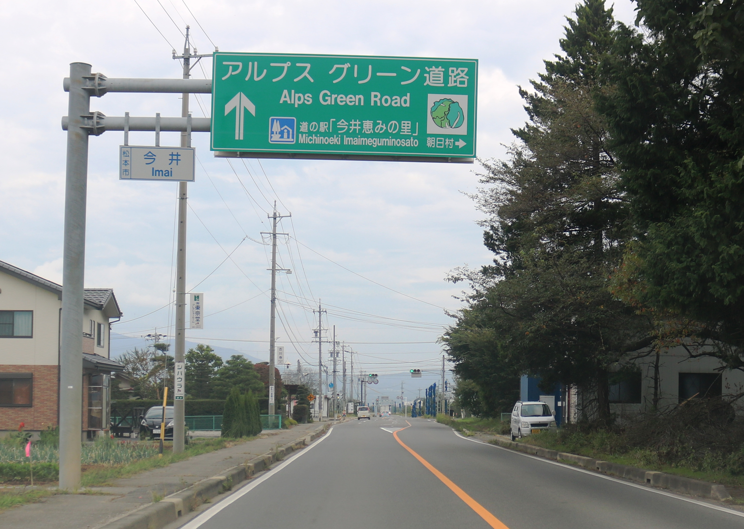 Alps Green Road in Imai, Matsumoto, Nagano prefecture, Japan.